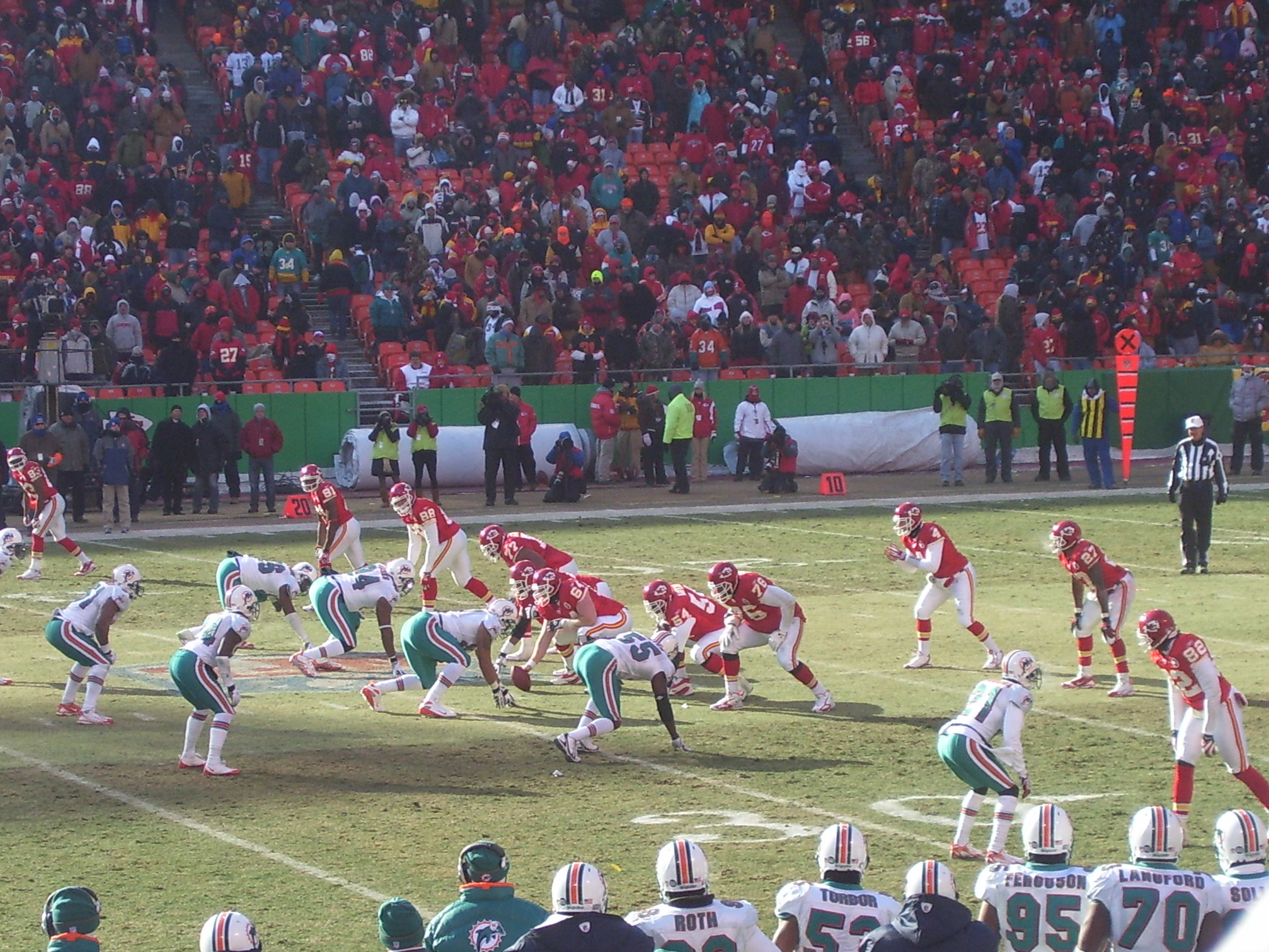 Miami Dolphins at Kansas City Chiefs, 21 December 2008. At Arrowhead Stadium in Kansas City, Missouri.